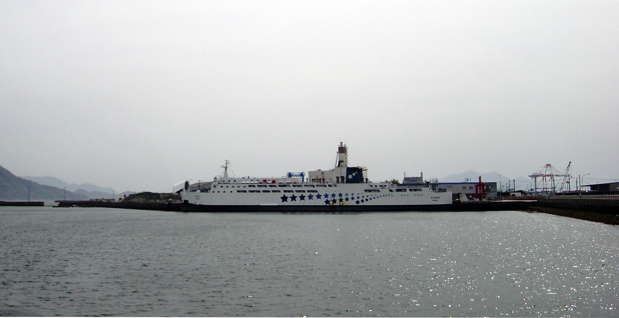 EUNHA at the Port of Hiroshima.